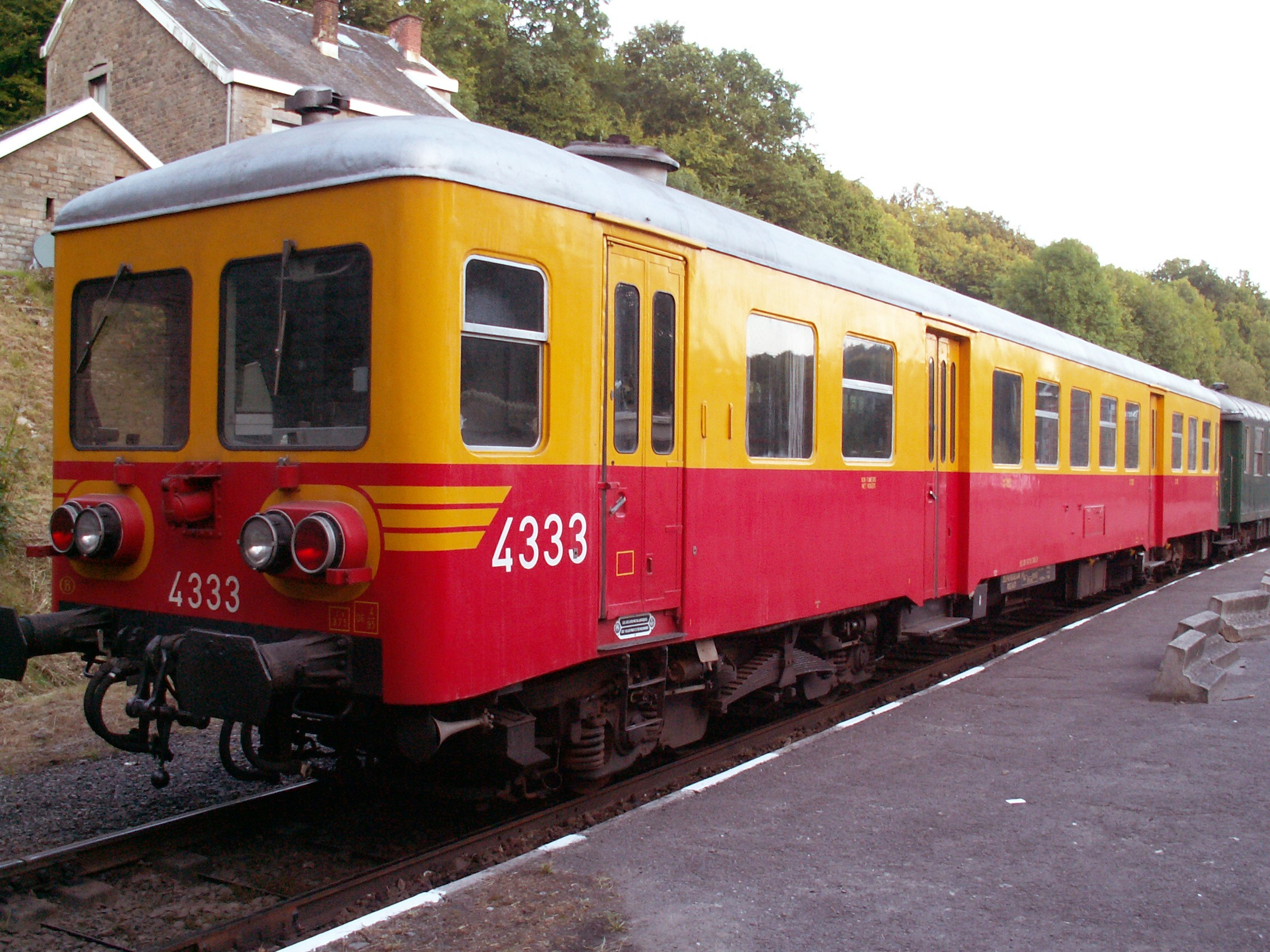 former SNCB 4333 railcar, now owned by PFT heritage railway. This has been used on the "Chemin de fer du Bocq" (belgian railway line 128) in 2009, as seen in Spontin station after an intensive duty day on 15/08/2009.